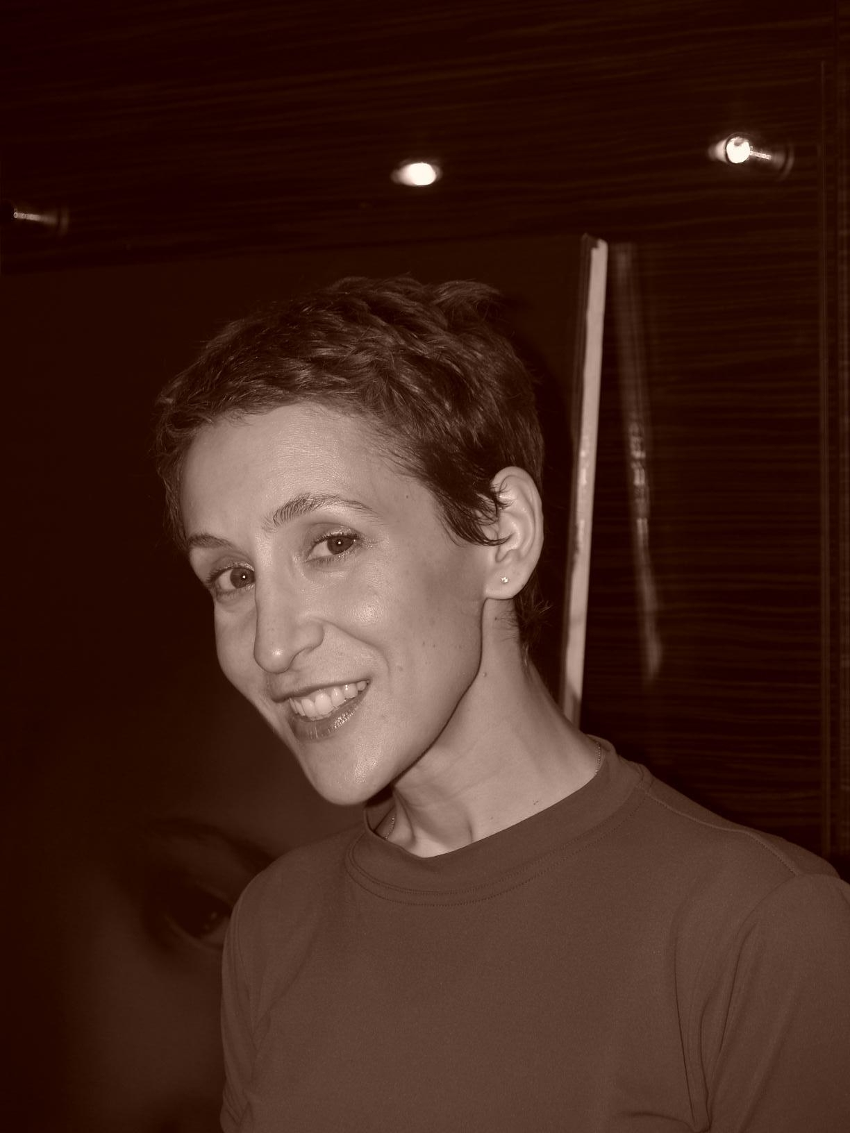 Stacey Kent in Taipei, Taiwan.